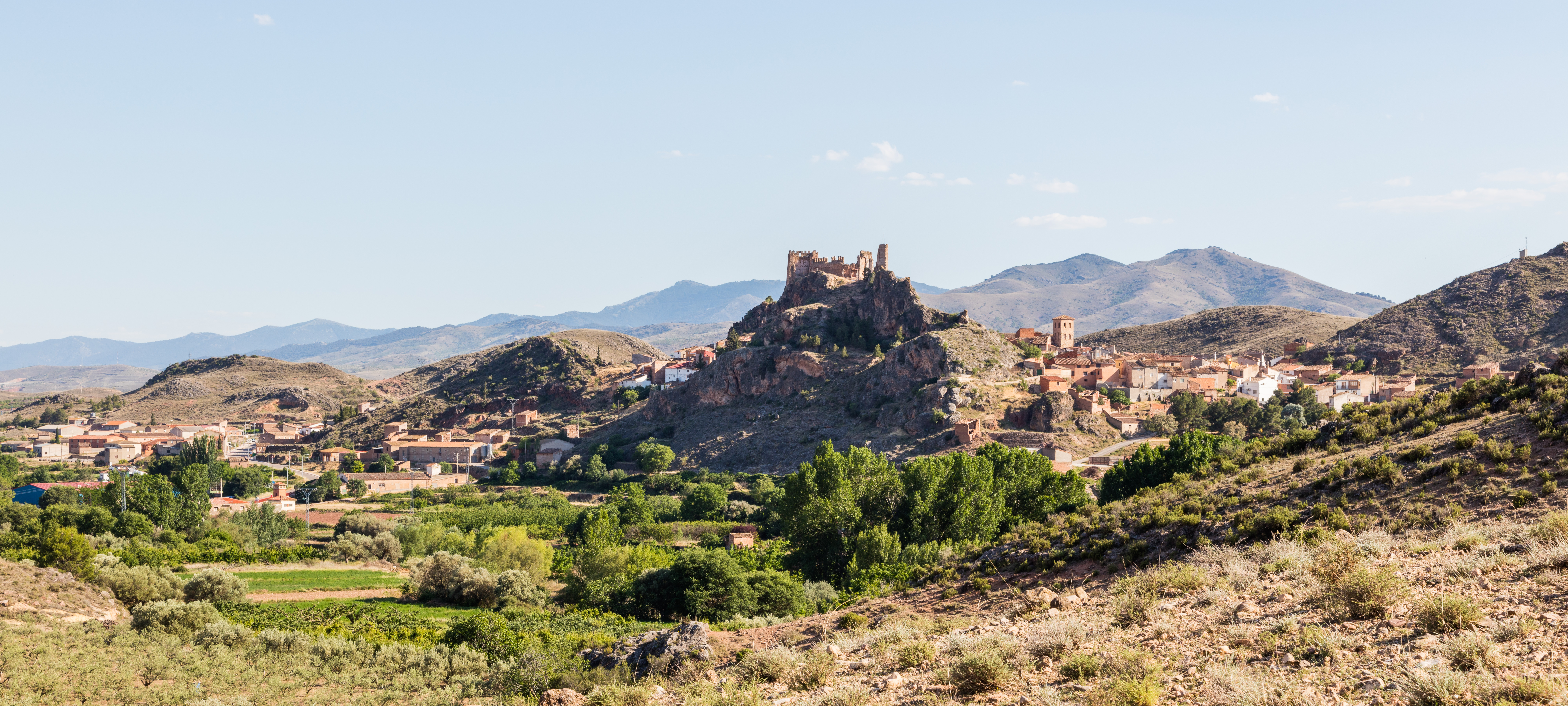 Castle, Arándiga, Zaragoza, Spain